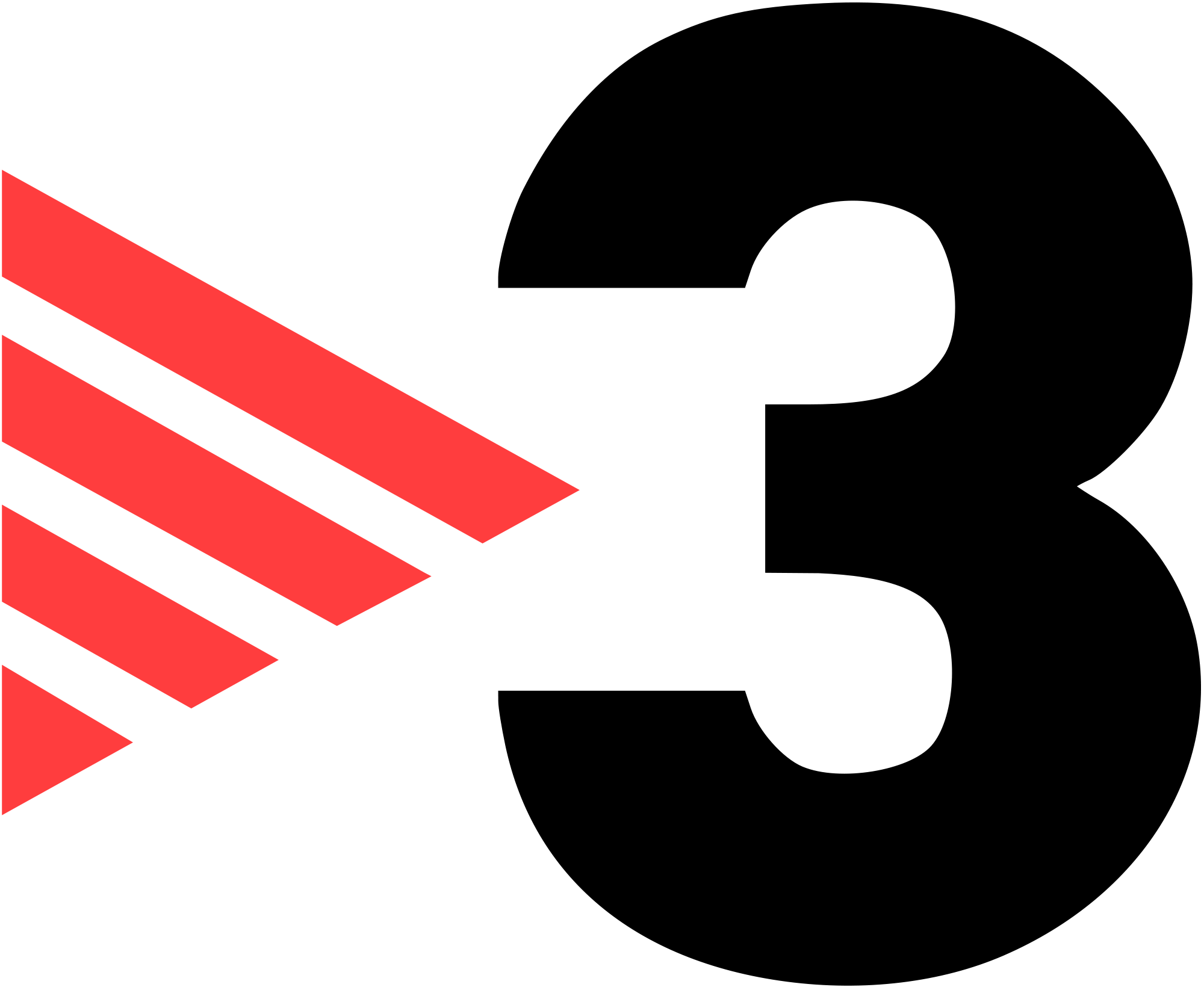 television channel of Catalan public broadcaster Televisió de Catalunya, a subsidiary of the CCMA